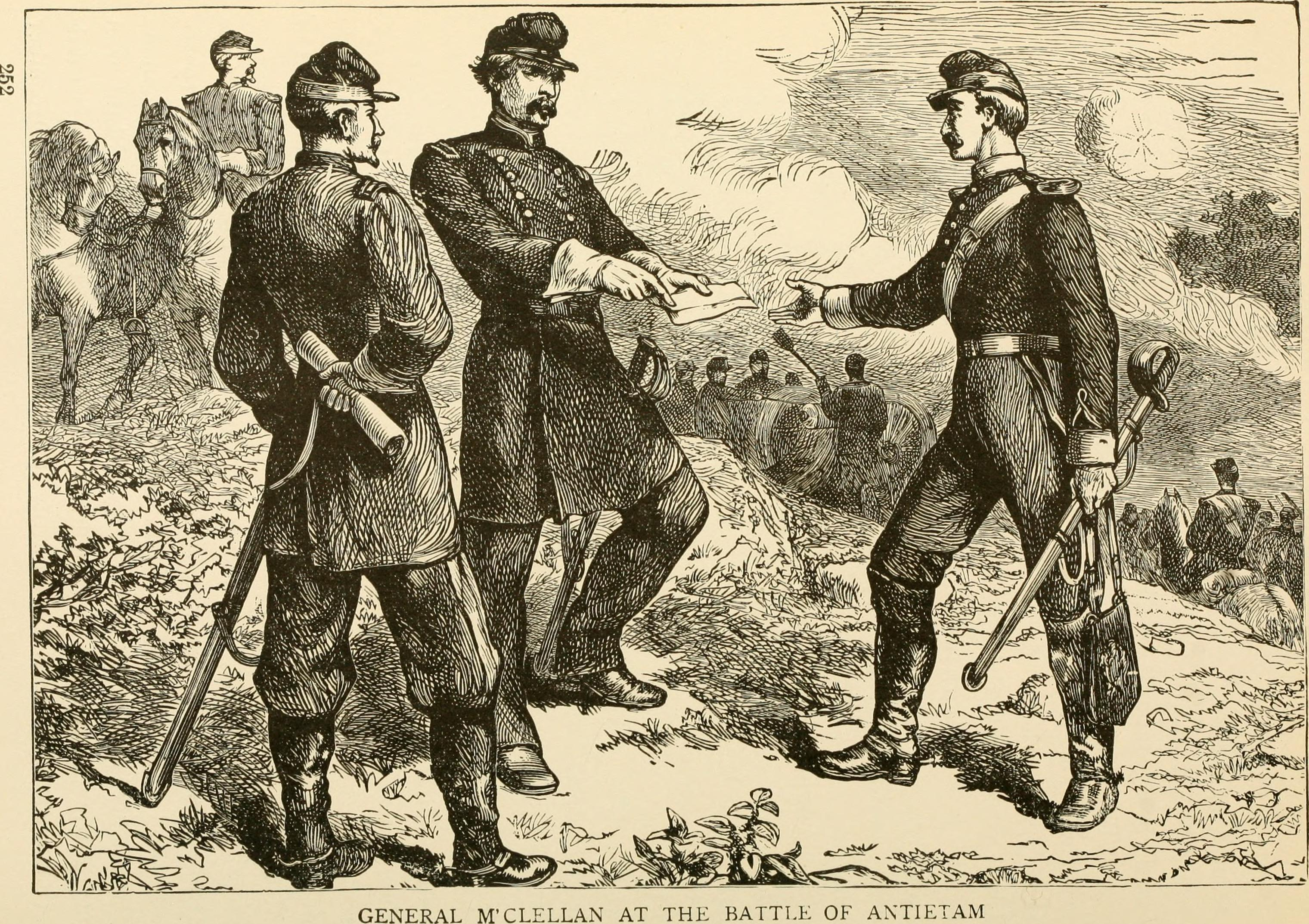 General George B. McClellan at the Battle of Antietam Title: The story of our nation, from the earliest discoveries to the present time ... together with a graphic account of Porto Rico, Cuba, Hawaii and the Philippine islands .. Year: 1902 (1900s) Authors: Stratton, Ella (Hines), Mrs. (from old catalog) Subjects: Publisher: Philadelphia, National publishing co Text Appearing Before Image: ' Text Appearing After Image: '